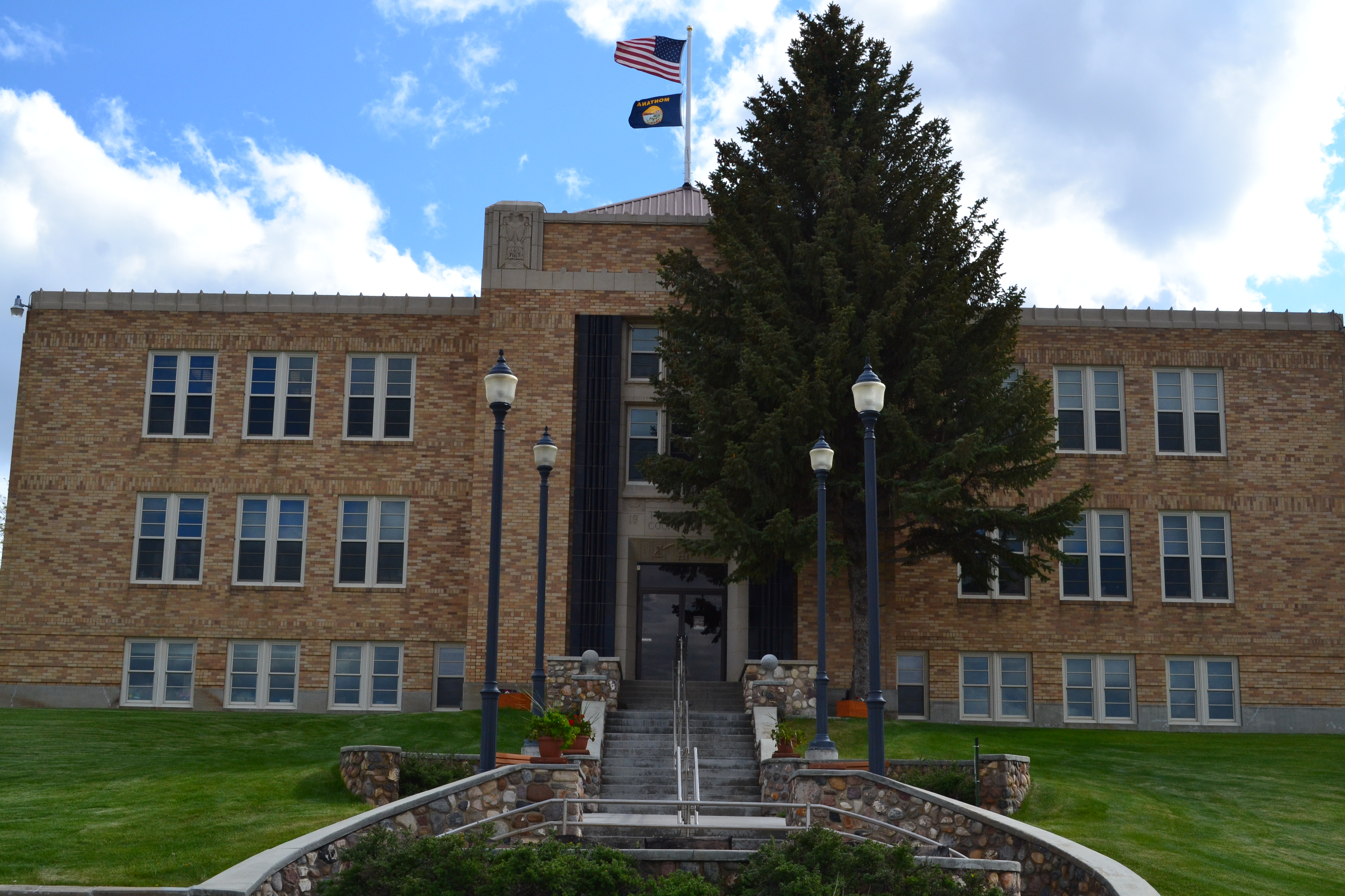 Toole County Courthouse in Shelby, Montana